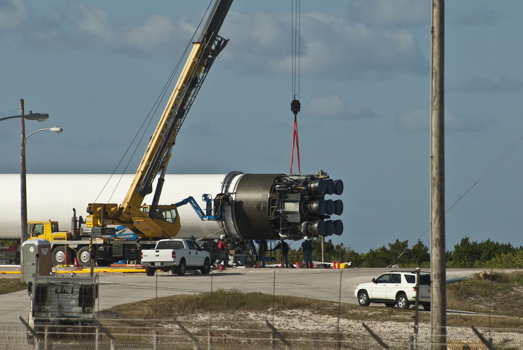 SpaceX's Falcon 9 with rocket motor package being installed in the first stage.